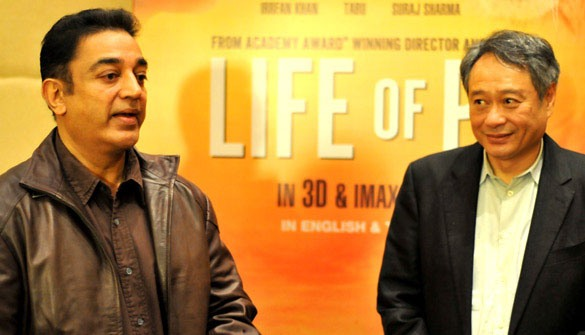 Kamal Haasan interviews Ang Lee